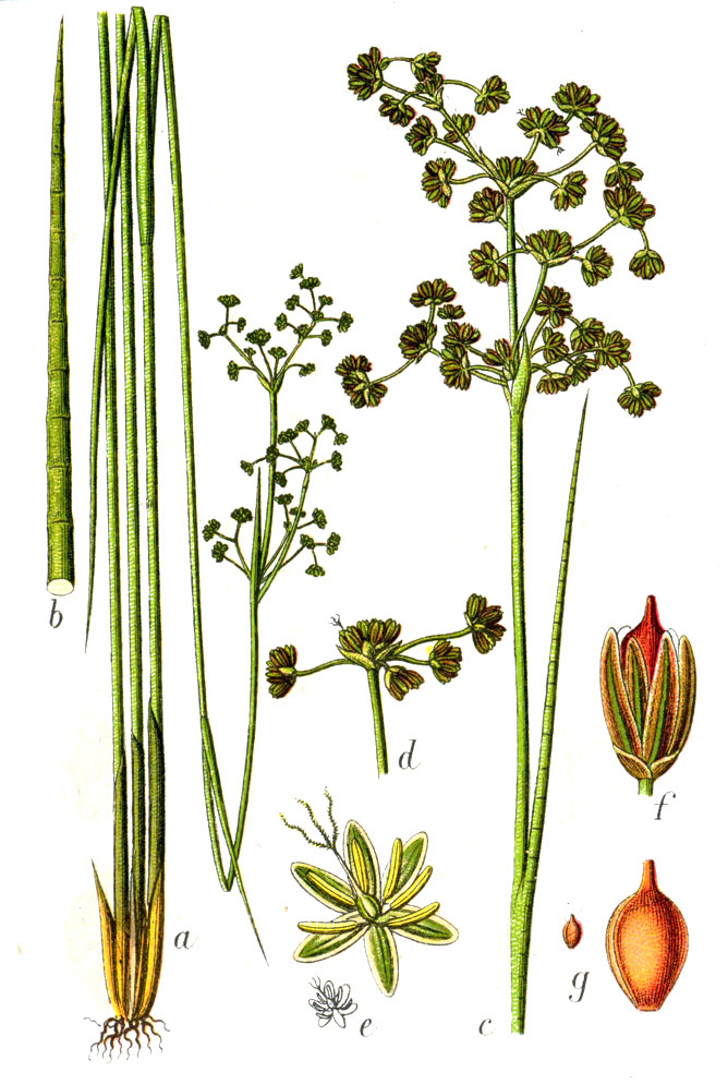 Juncus subnodulosus Schrank, syn. Juncus obtusiflorus Hoffm. Original Caption Weissblumige Knotenbinse, Juncus obtusiflorus